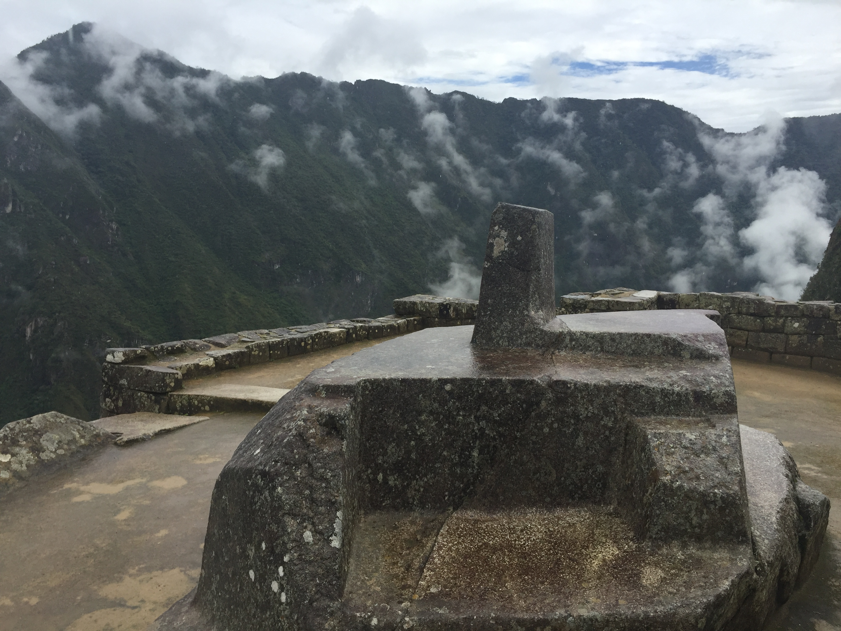 Close up photo of the Inti Watana at Machu Picchu, Peru